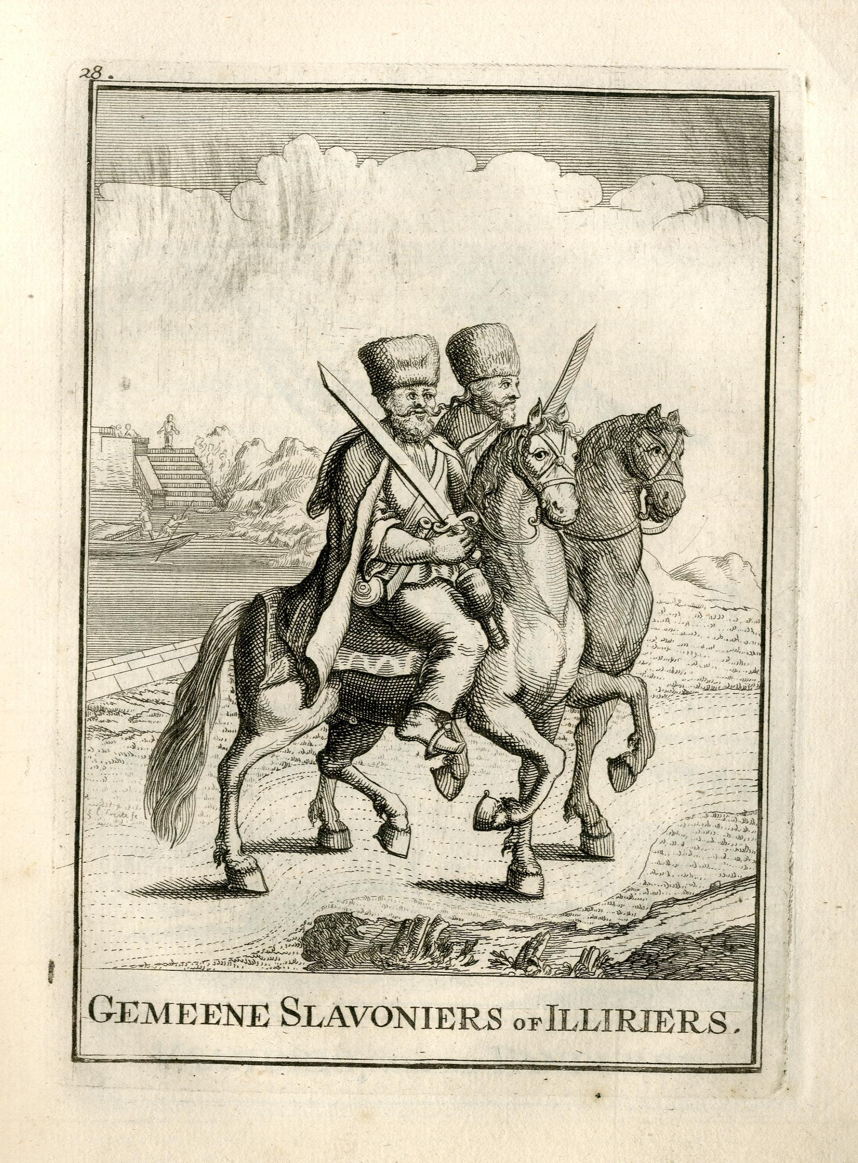 Illustration